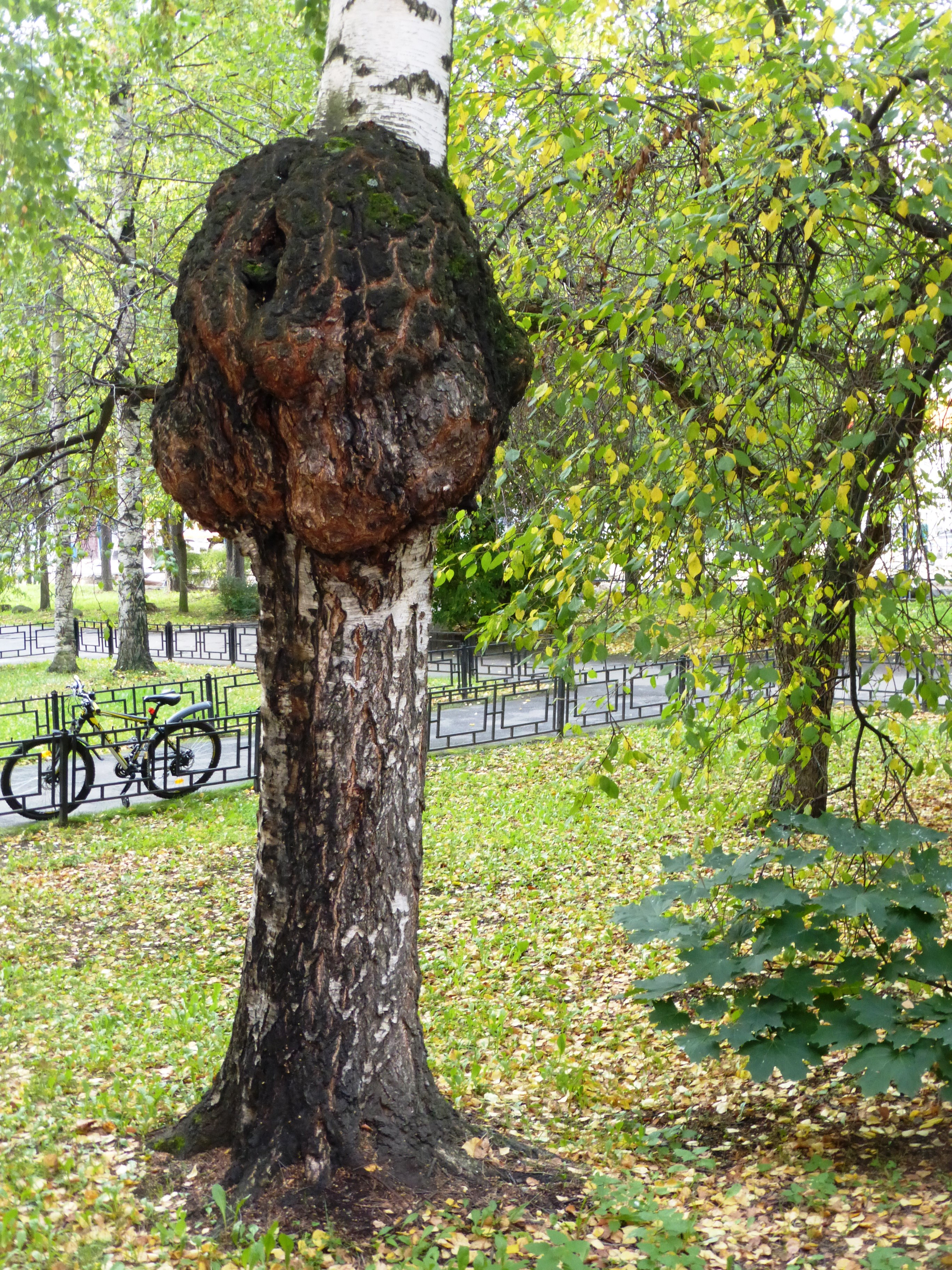 Tree canker on Betula pendula (Betula verrucosa), Petrozavodsk, Karelia, Russia. 09.2015